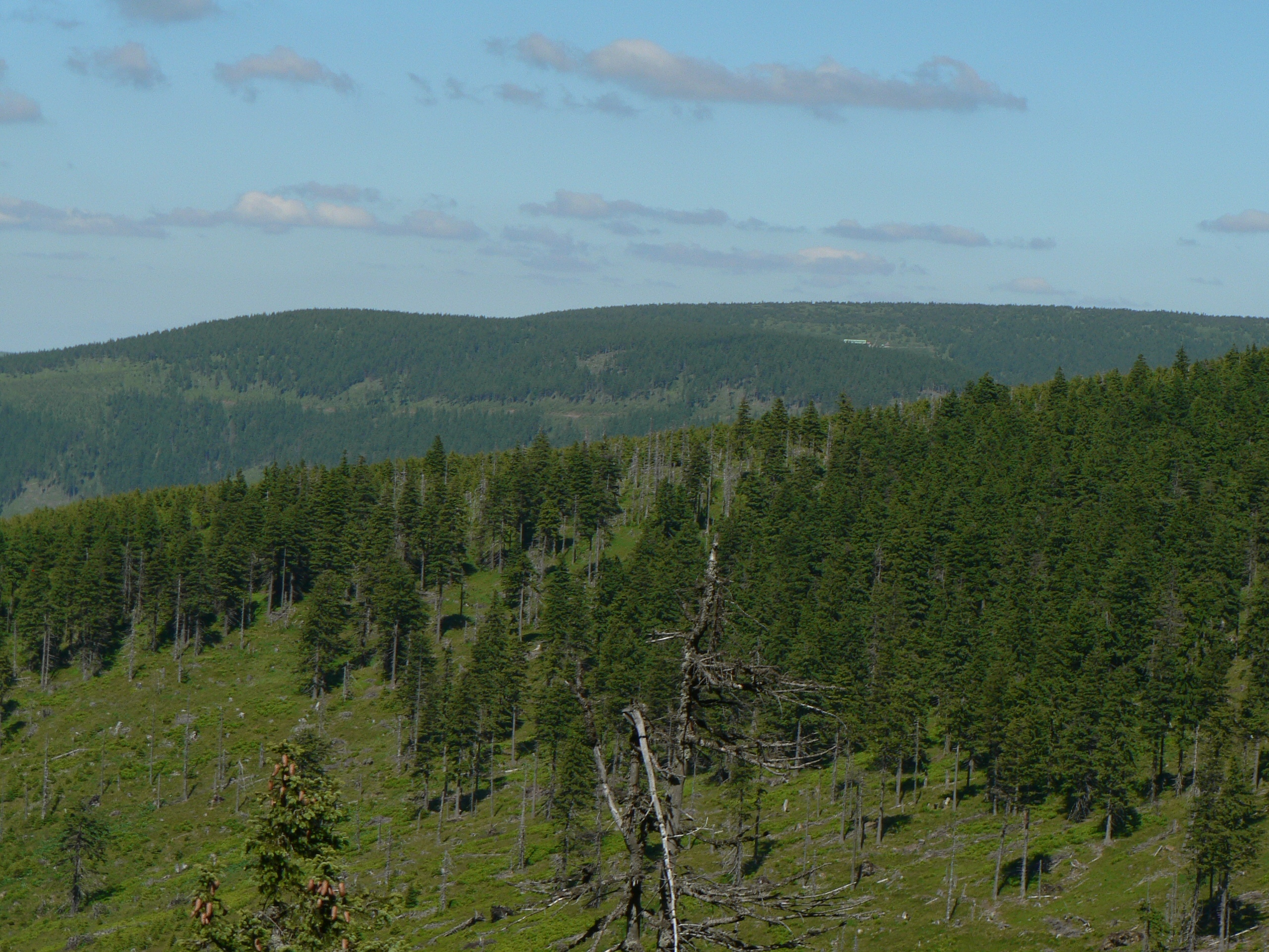 Maly Ded mountain with Svycarna cottage, Hruby Jesenik Mts, Czech republic.